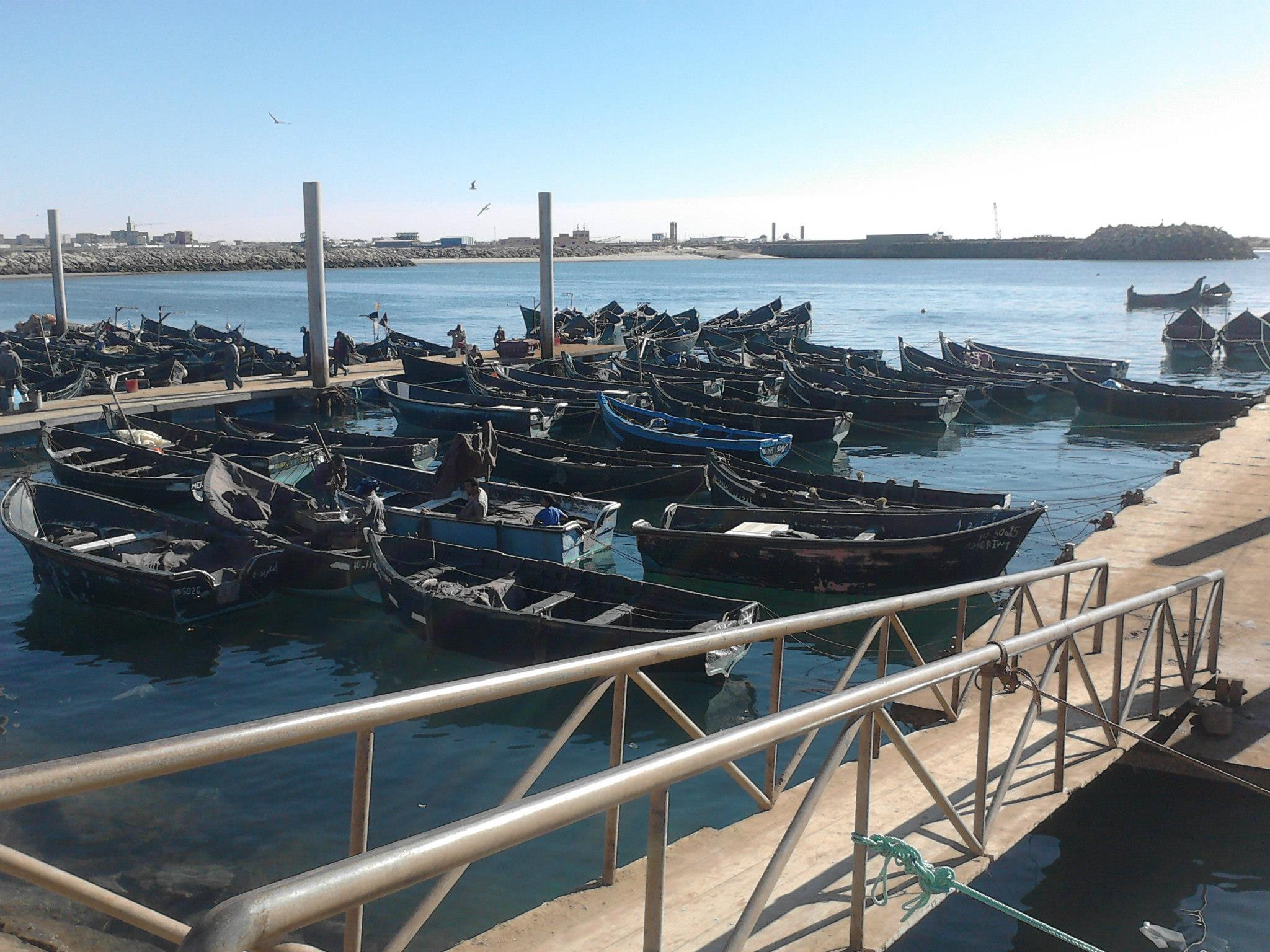 Tarfaya Port, Tarfaya, Morocco.